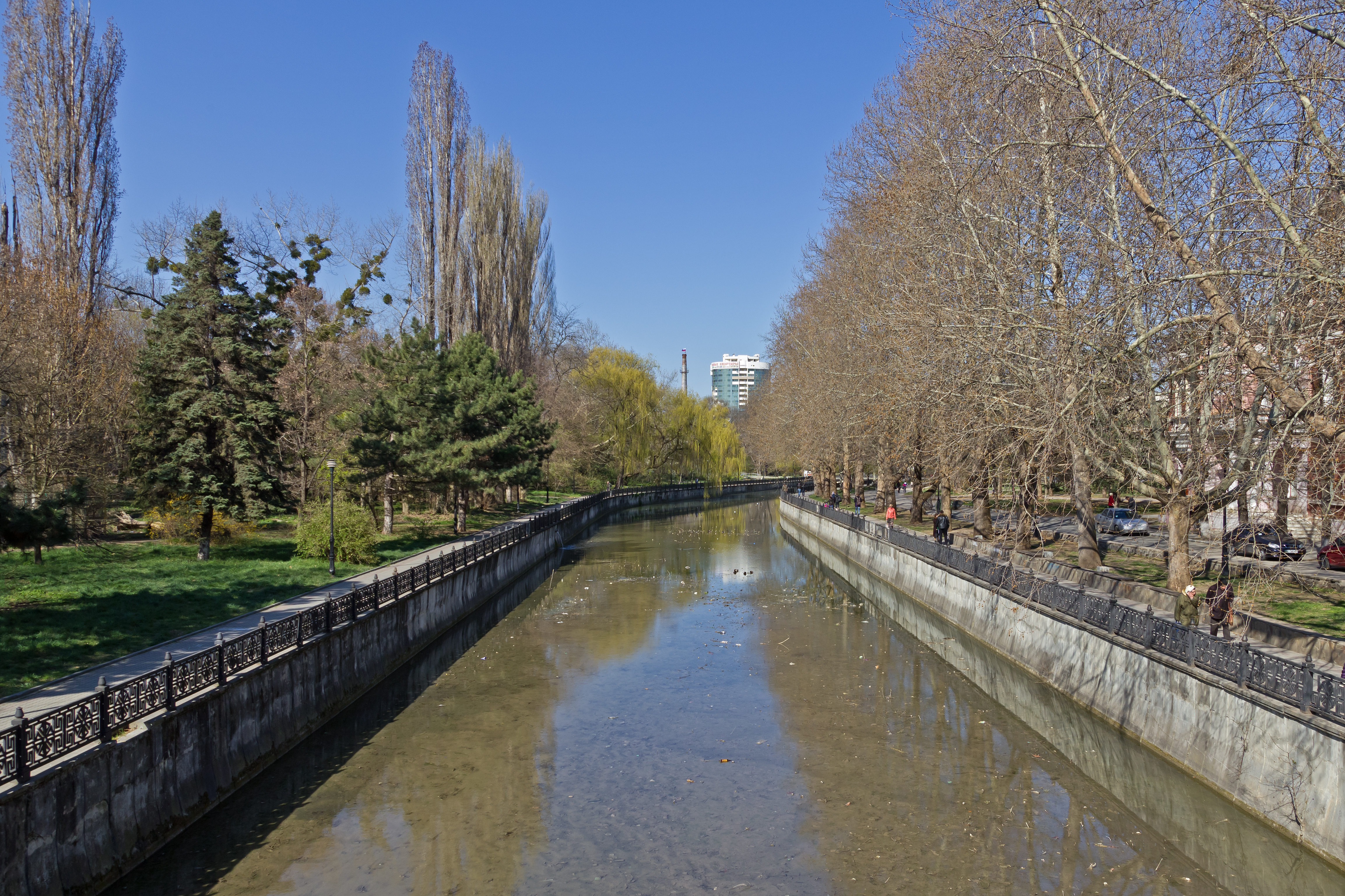 The Salgir River in Simferopol, Crimean Peninsula.